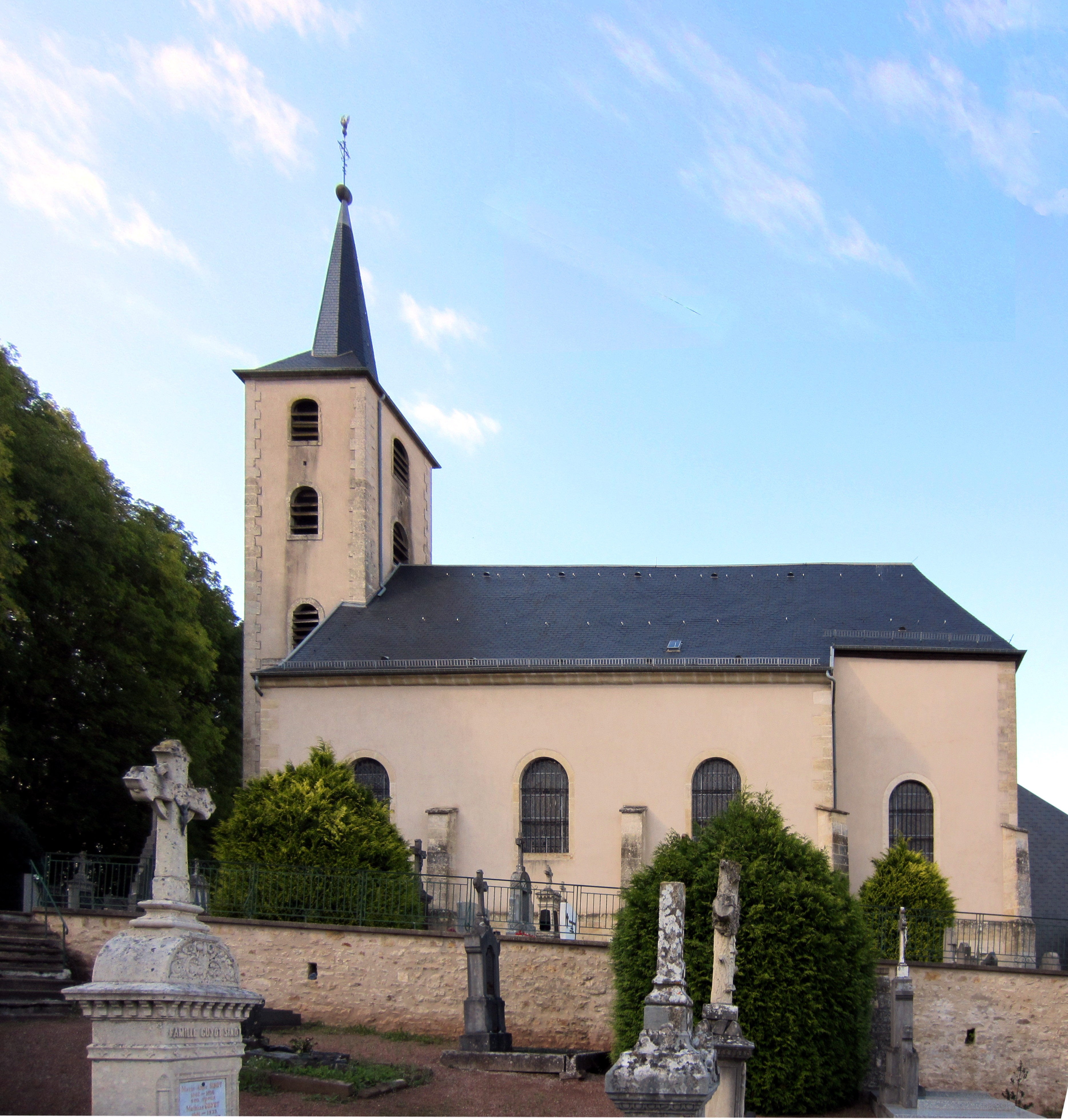 Description eglise Kanfen Date19 September 2011Sourcemon appareil photoAuthorAimelaimePermission(Reusing this file) eglise Kanfen